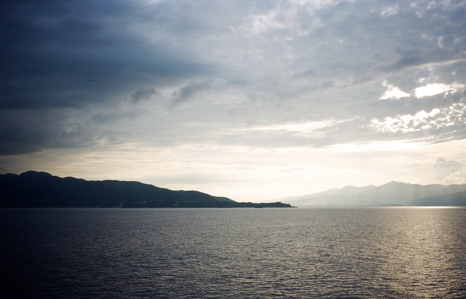 Sado, Niigata, Japan seen from the sea, in front Kosado, in back Osado